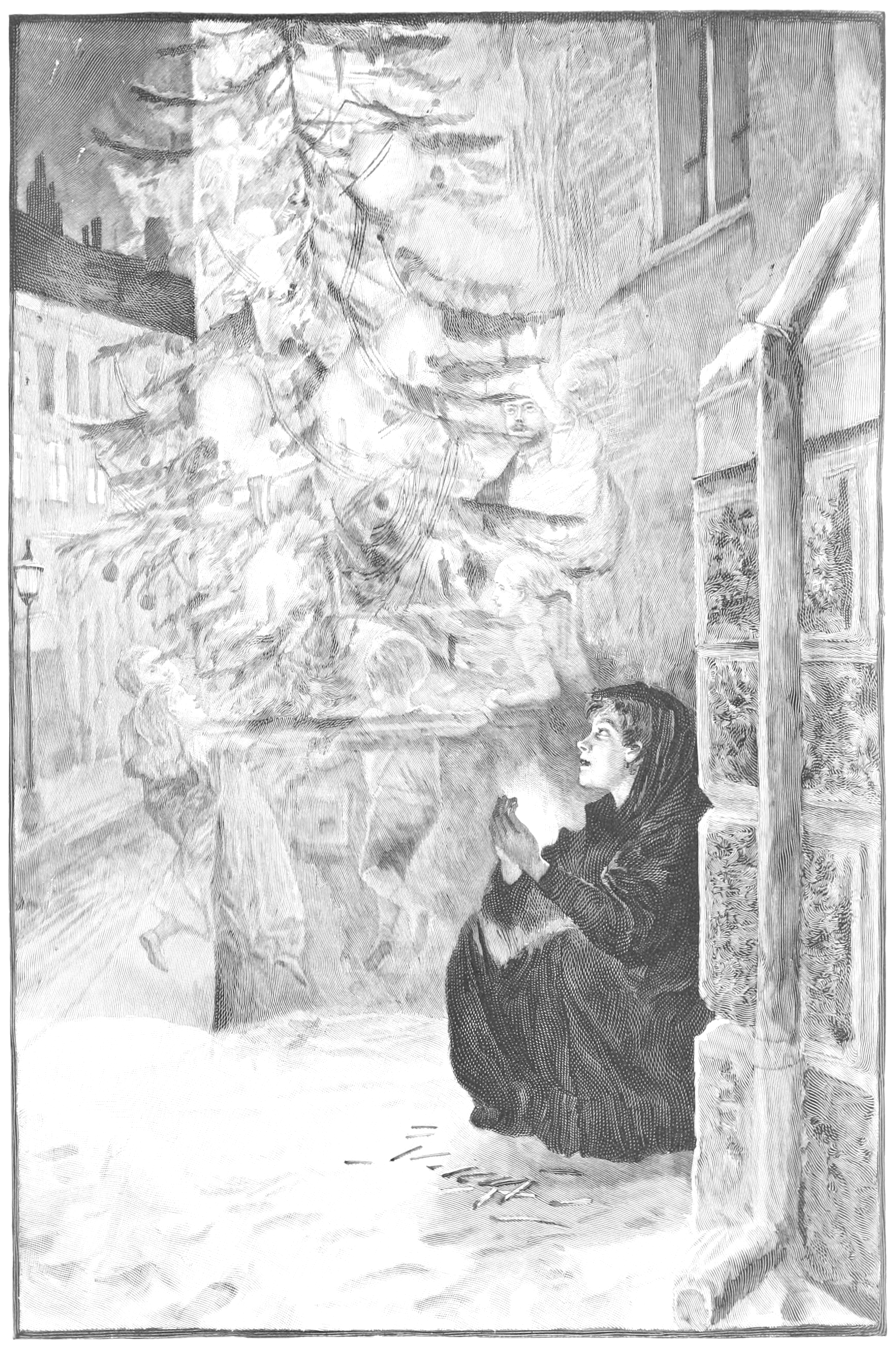 Scan of illustration in Fairy tales and stories (1900). Andersen, H. C. (Hans Christian), 1805-1875; Tegner, Hans, b. 1853, ill; Brækstad, H. L. (Hans Lien), 1845-1915 New York: The Century Co.